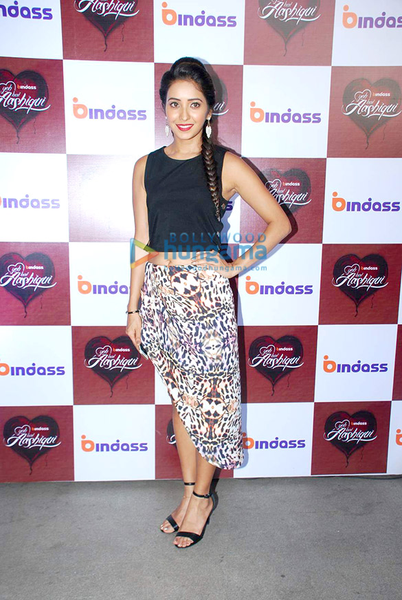 Asha Negi at the screening of Bindass’ Yeh Hai Aaashiqui